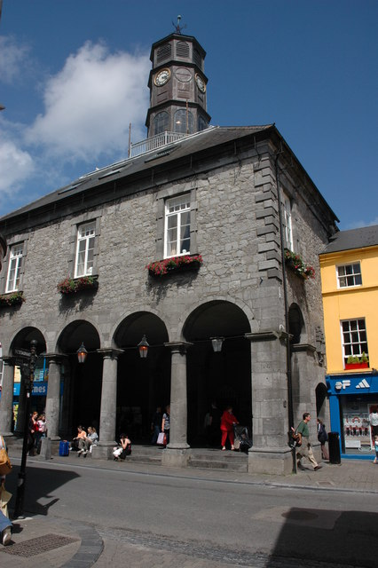 The Tholsel, Kilkenny